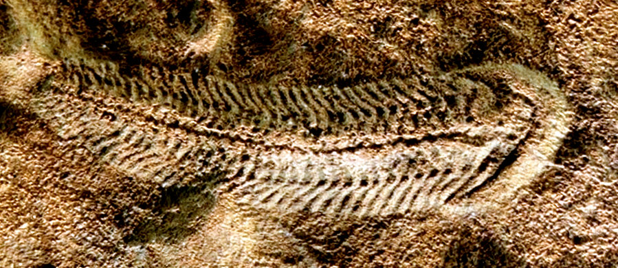 thumb|left|300px|Un-cropped and un-enhanced original